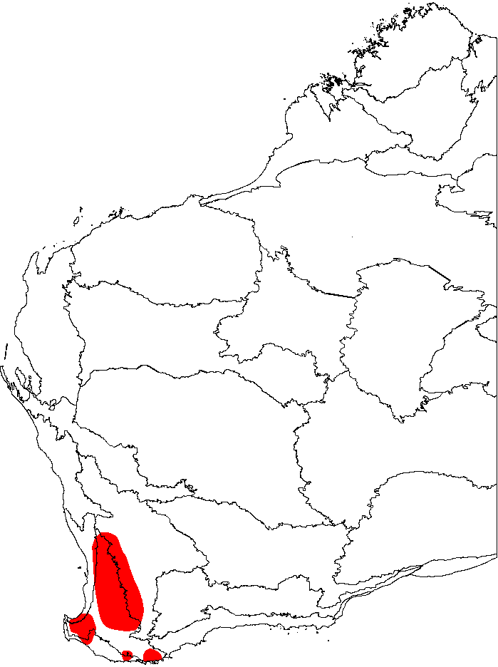 This is a map of Western Australia, showing the distribution of Banksia squarrosa (Pingle) superimposed on a background of the IBRA 6.1 biogeographic regions.